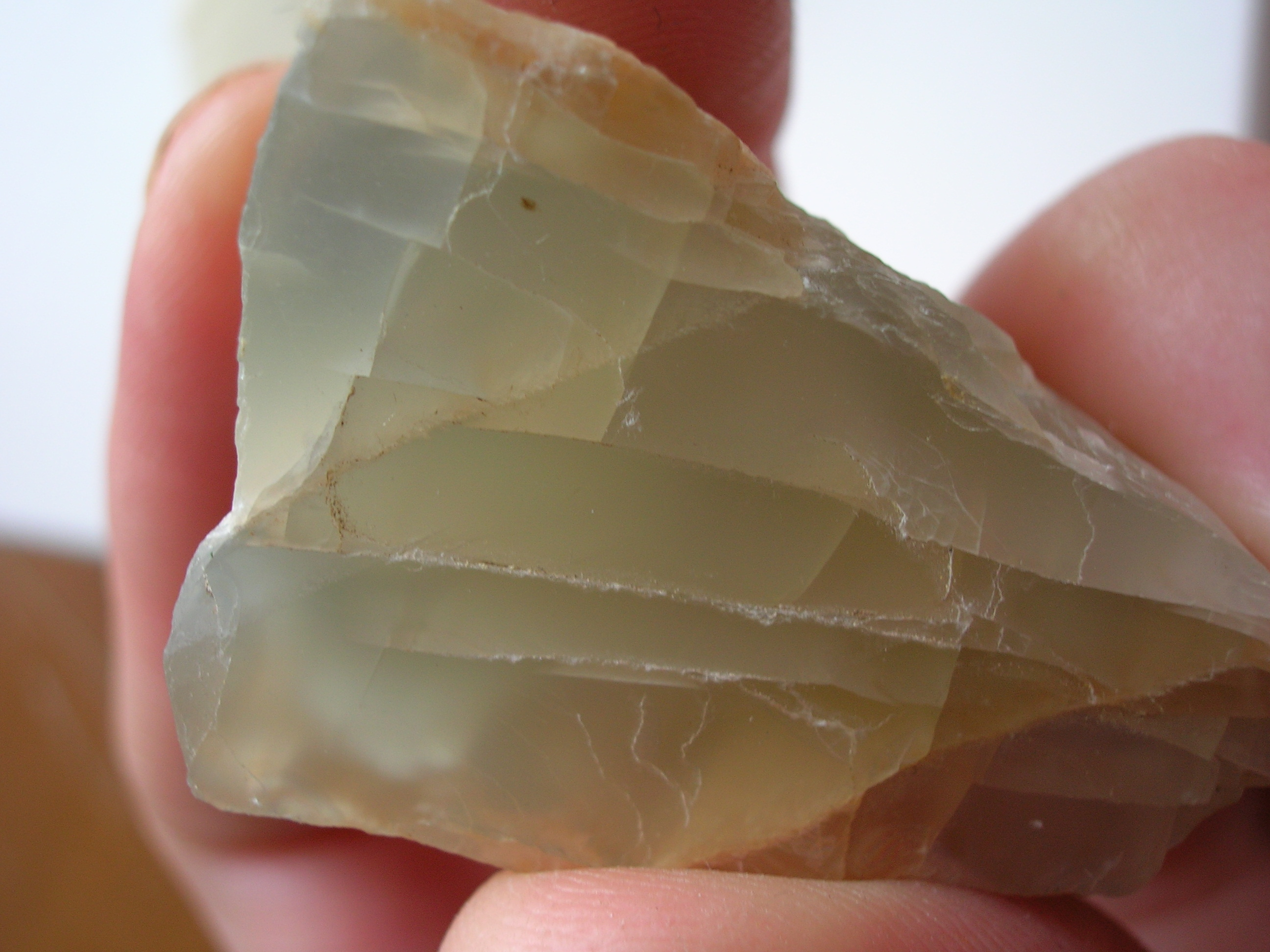 Moonstone gem